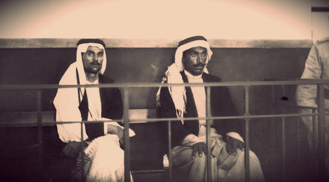 Arab prisoner led to jail, after his trial at the Russian Compound (Migrash HaRussim), Jerusalem. Trial of the infamous bandit Abu-Gilda in Shechem (Nablus)